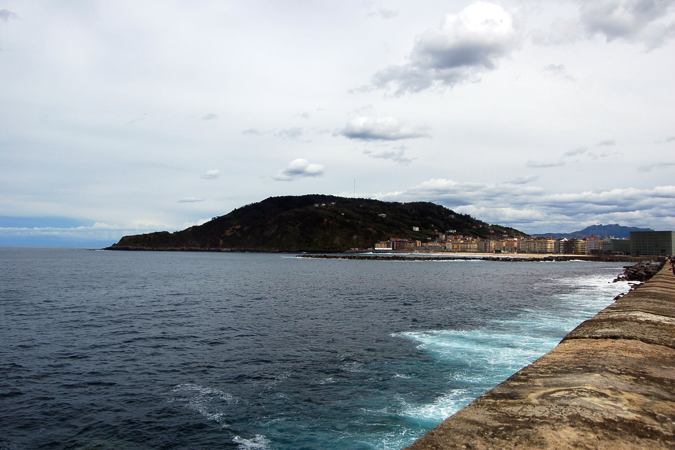 Coast of Ulia, Donosti (San Sebastián). Spain.